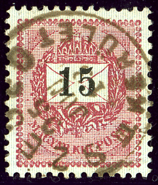 Kingdom of Hungary 15 kr issue 1888 stamp, cancelled at SZEGED III KERÜLET (3d district of the town, central Hungary) in 1895.